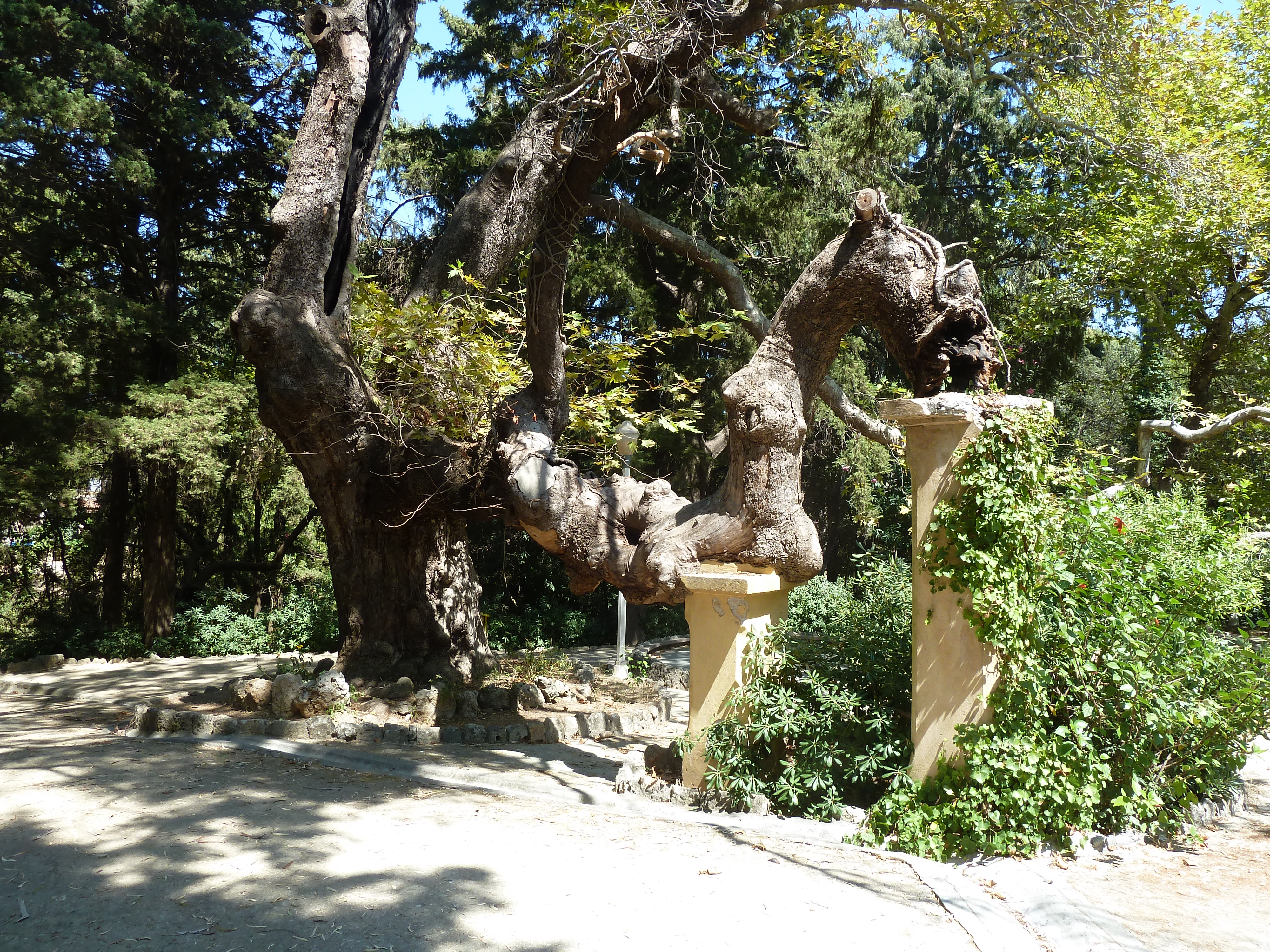 Rodini Park.Rodos